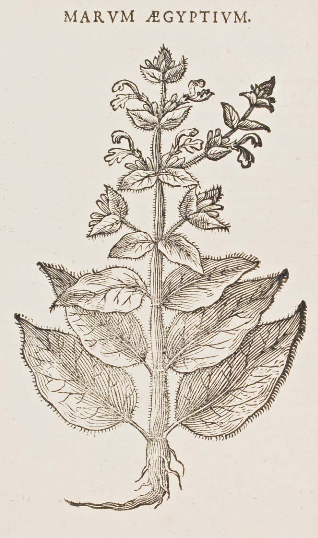 An illustration by Alpino titled "Marum aegyptium", unknown to Etlinger (1777) in the original description of Salvia tingitana, based in part on "Horminum tingitanum" (1690) by Rivinus.